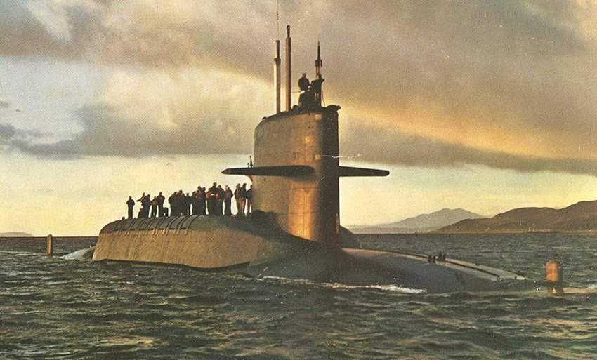 The U.S. Navy ballistic missile submarine USS Patrick Henry (SSBN-599) returning from a patrol in the early 1960s.